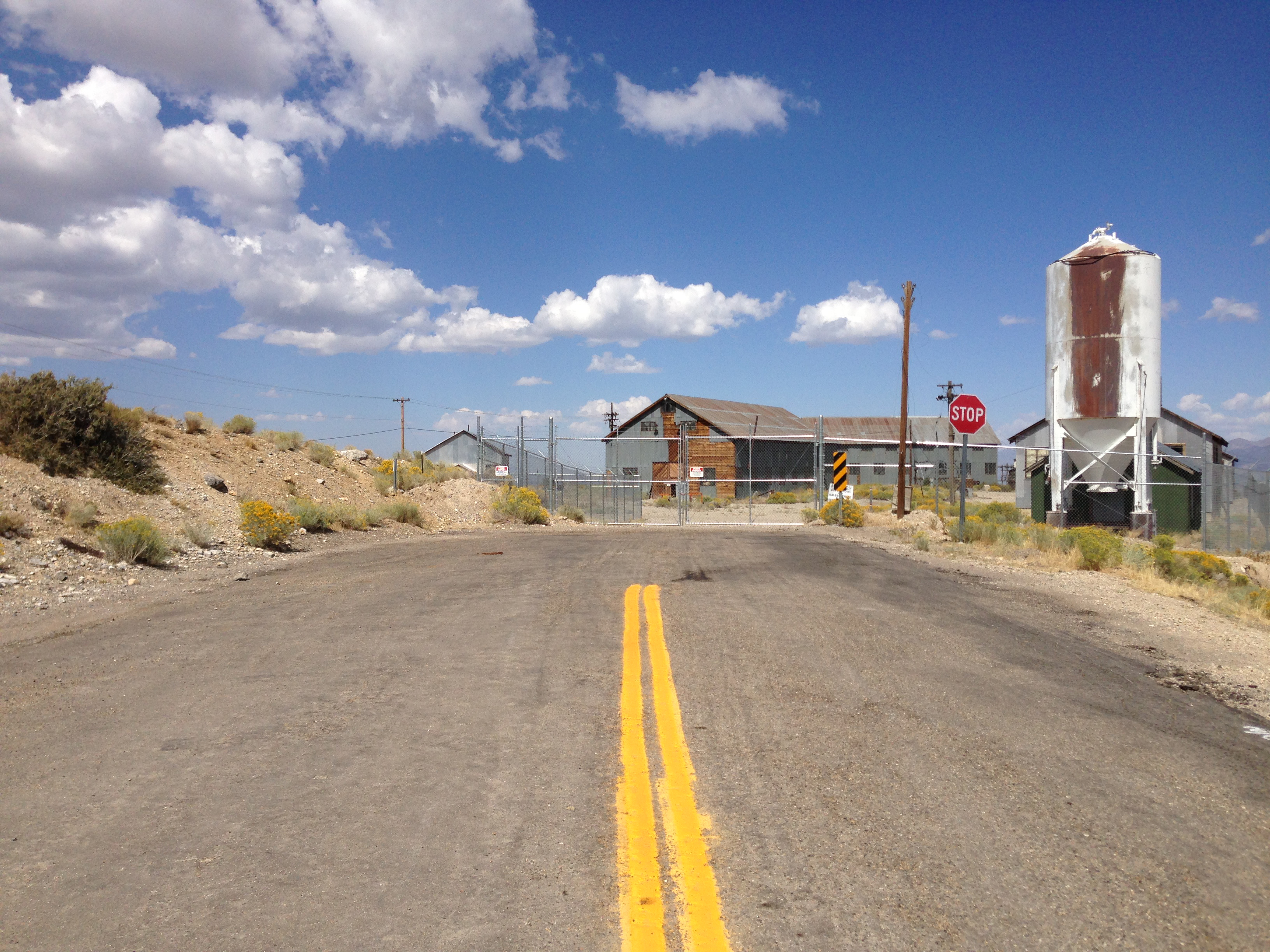 View west at the west end of Ruby Hill Avenue (former Nevada State Route 780) at the Richmond Mine in Eureka, Nevada